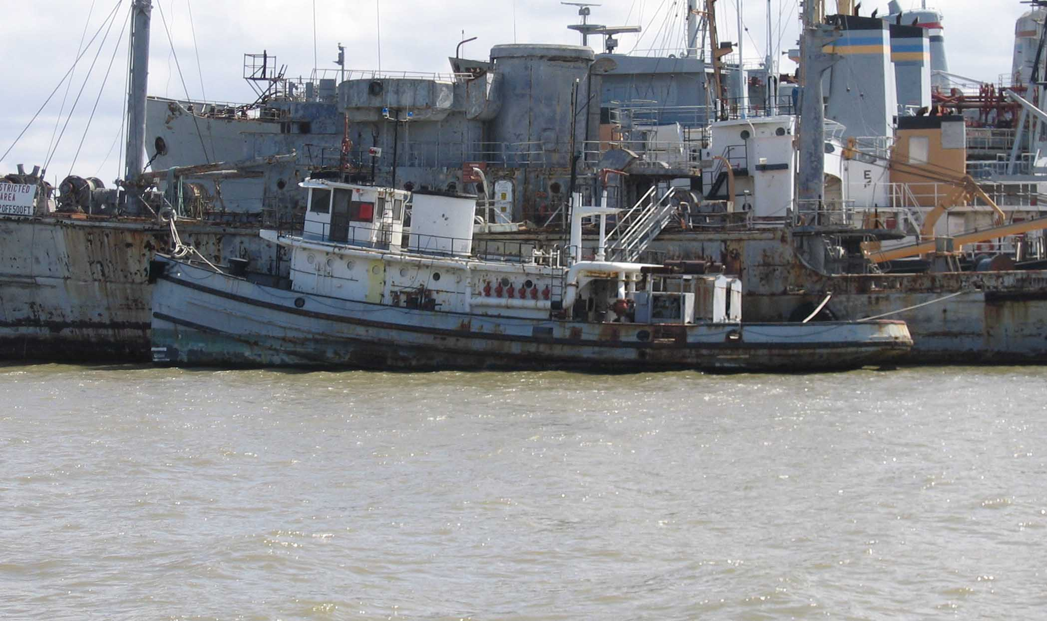 USS Hoga, Photograph by Ken Freeze - Taken March 26, 2006 from M/V Journey - Martinez, CA